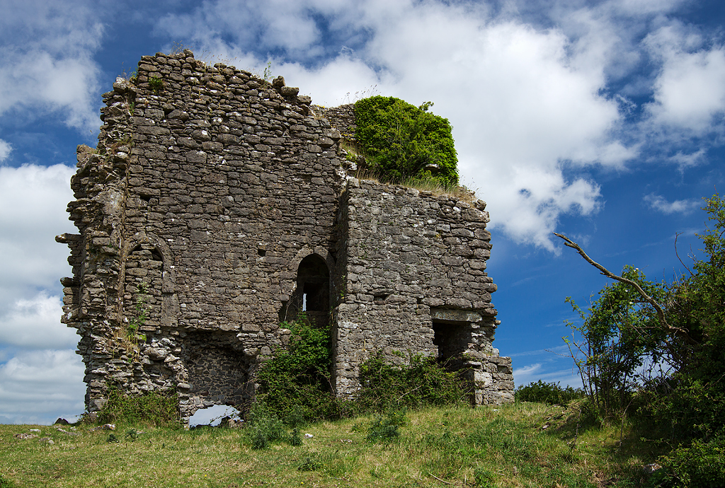 Castles of Munster: Castle Leiny, Tipperary (2)